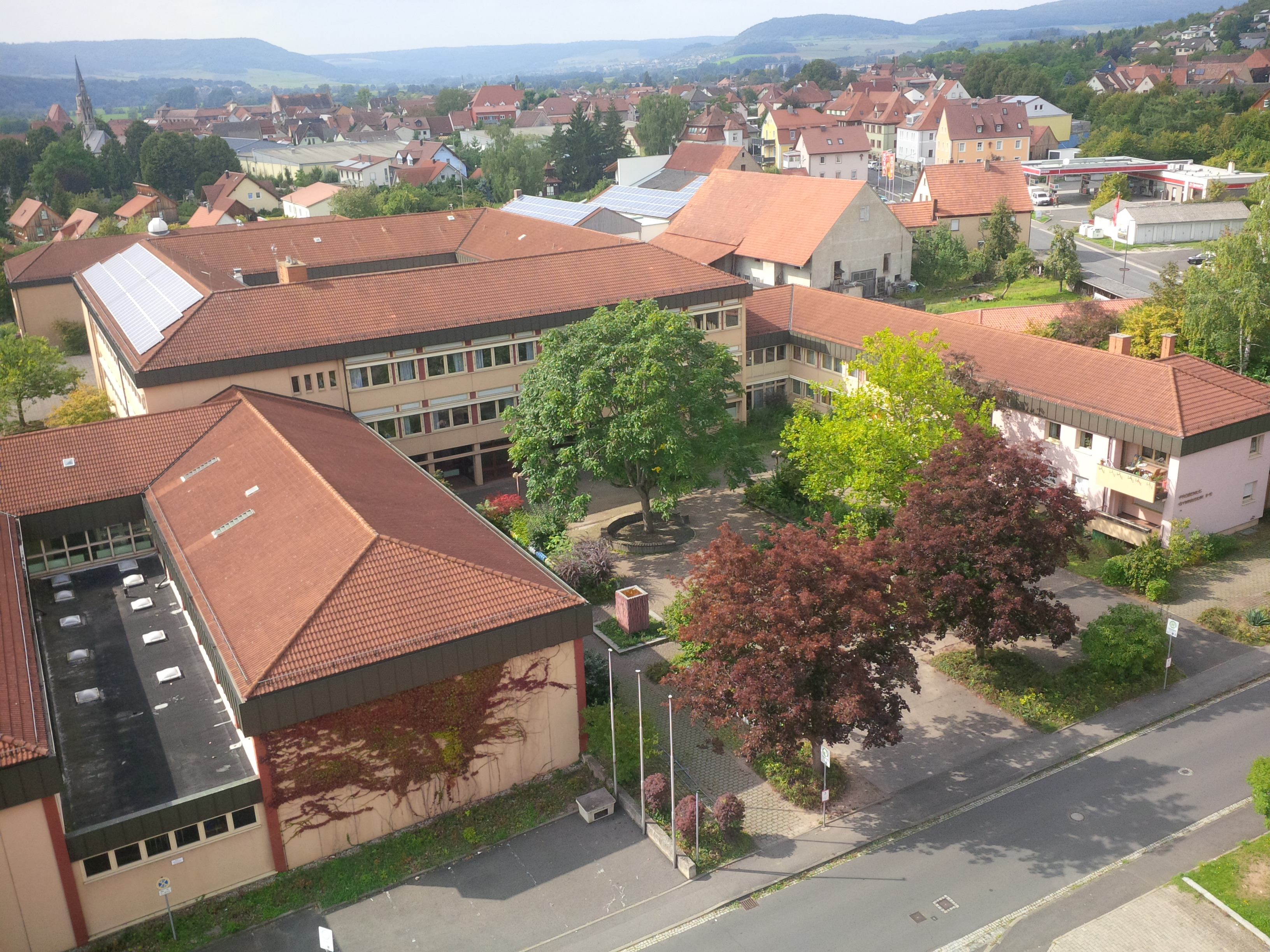 Frobenius-Gymnasium Hammelburg